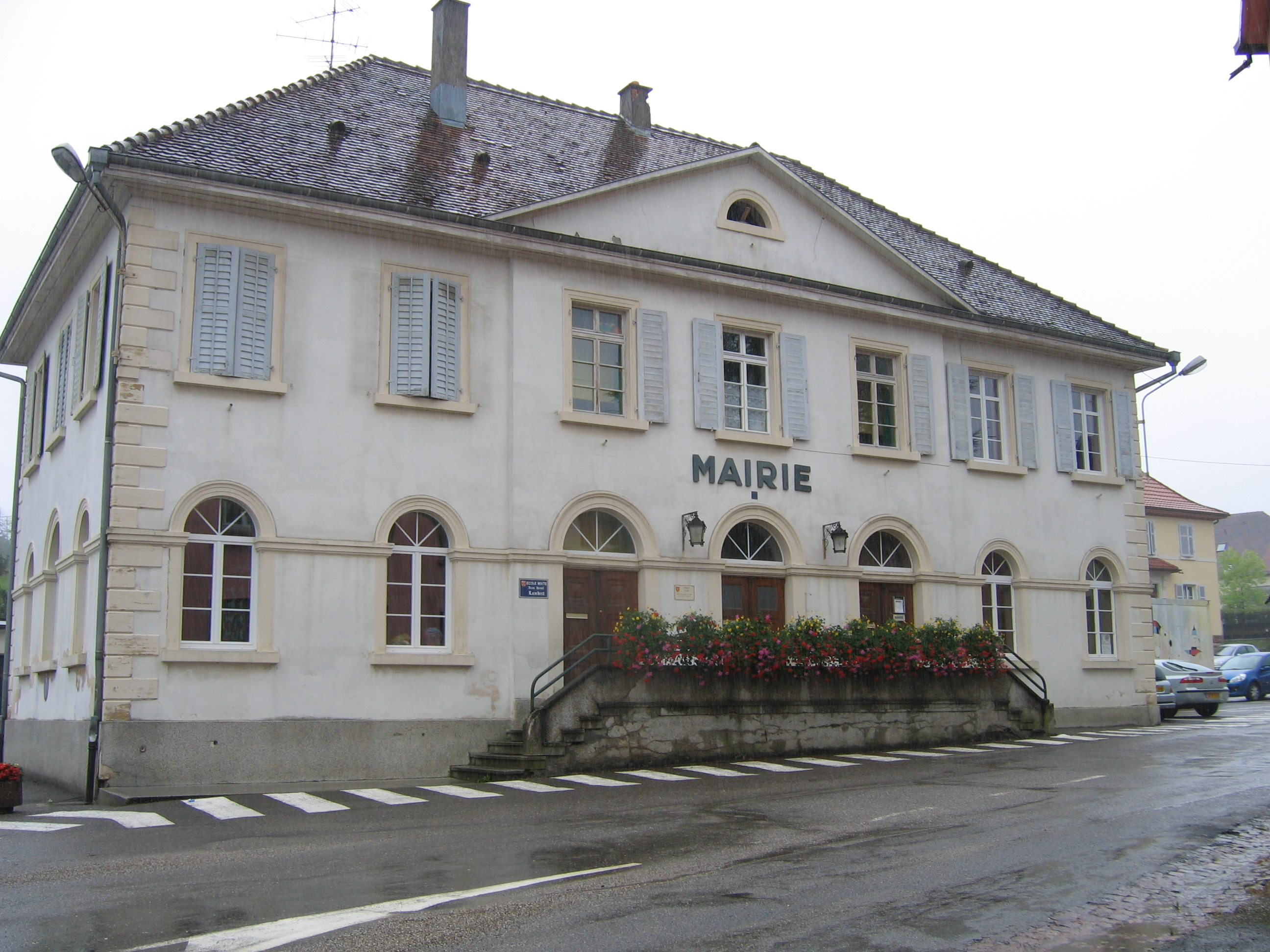 Seppois le Bas (France - Haut Rhin): City hall